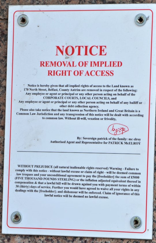 "Sovereign Citizen" notice, Belfast (October 2013)